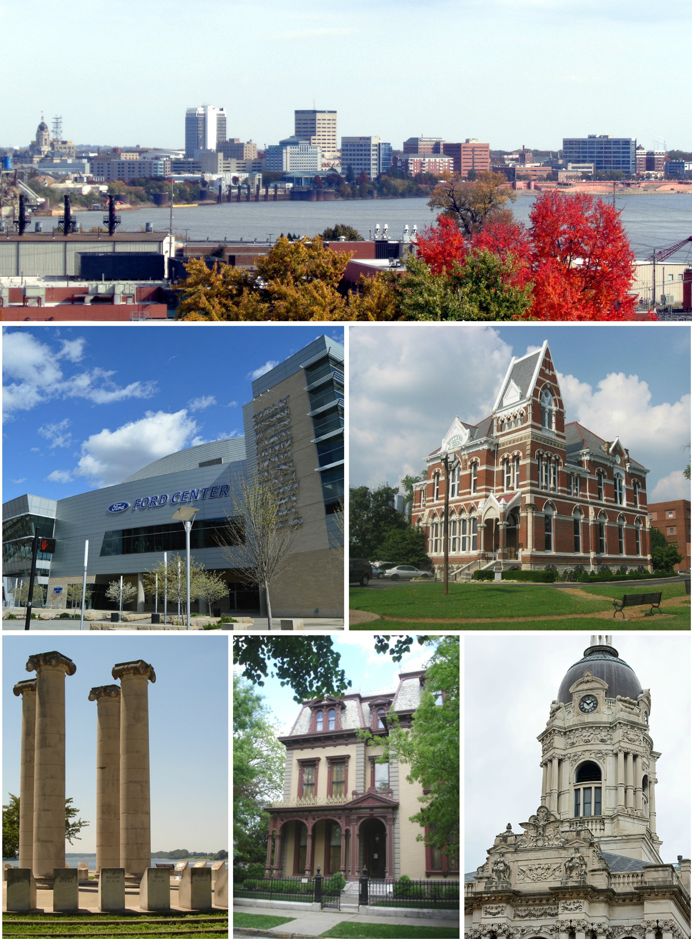 This is a collage for the Evansville, Indiana, page